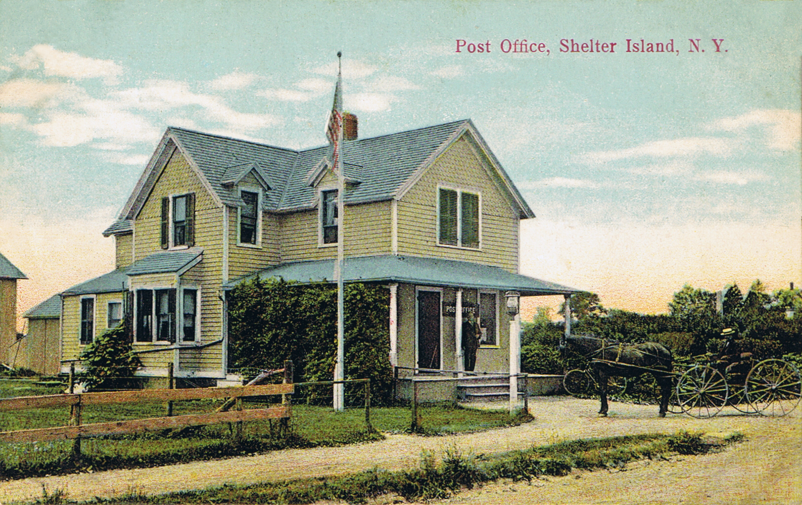 Matte color postcard of Post Office, Shelter Island, Long Island, New York, shows American flag and horse and buggy. Back is divided and reads "Printed in Germany" and has a logo that reads "H.D. Korten, .87 Frankfort SL N.Y., O.K."